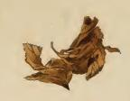 Stainton’s Natural History of the Tineina (1855–1873): Aroga flavicomella leaves of sloe fastened together and eaten by larva